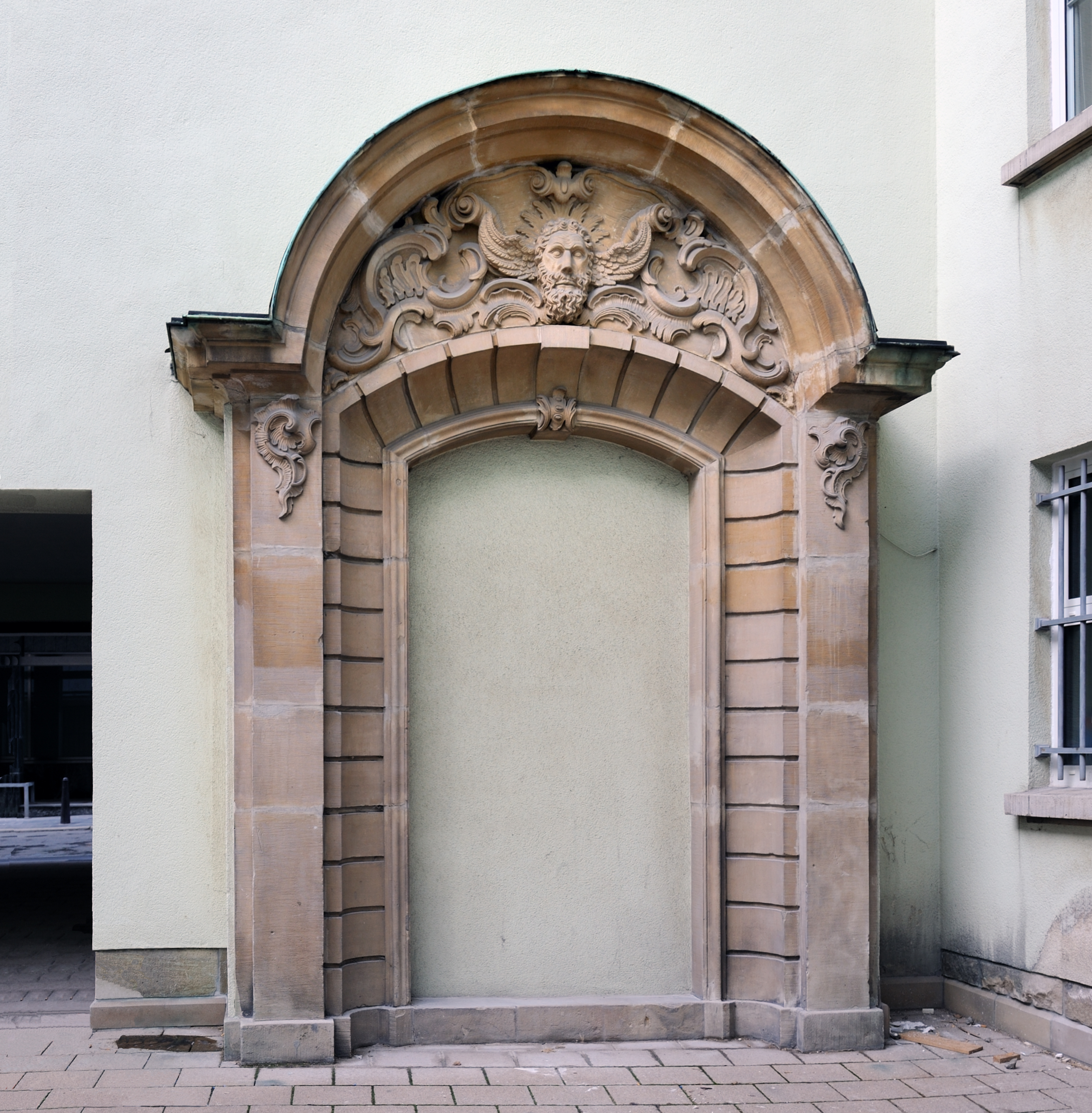 Luxembourg City: Entrance to the former so-called Mayer-Ensch house rue Philippe II and rue Louvigny. The house was demolished in 1952, but the entrance was preserved in the courtyard of the building erected at the place of the house.